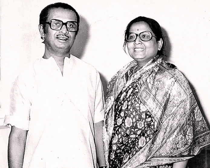 Sudhin Dasgupta with Manjusree Dasgupta